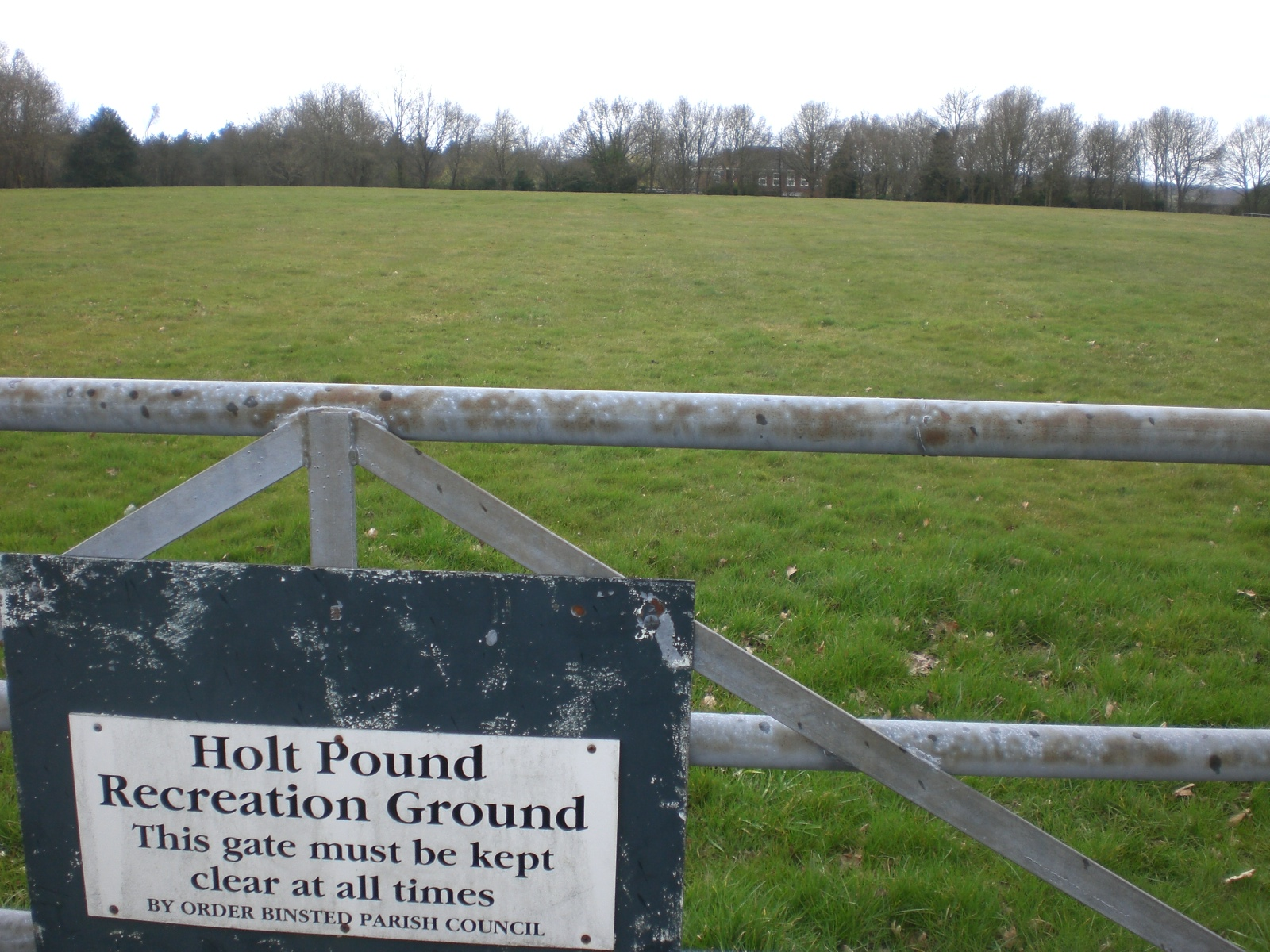 Photo of Holt Pound Field